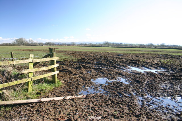 Farmland.